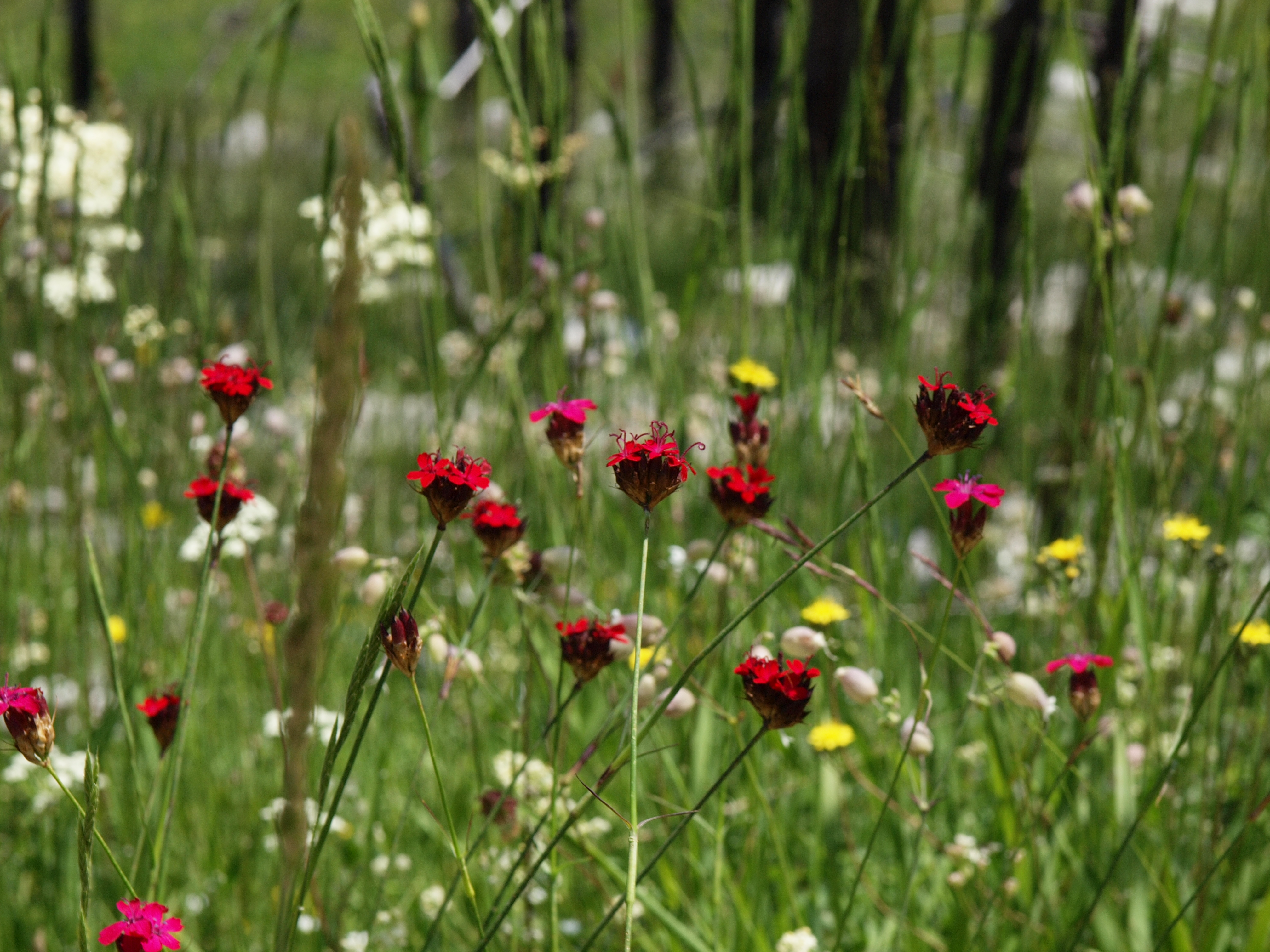 Dinaric endemism Dianthus carthusainorum ssp sanguineus Hegi sometimes regarded as a separate species Dianthus sanguineus. Image from June 2013 on the Bijela gora on the Orjen range at 1200 m. Localitz is called Jarciste